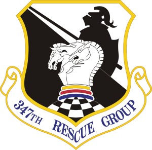 Emblem of the USAF 347th Rescue Group